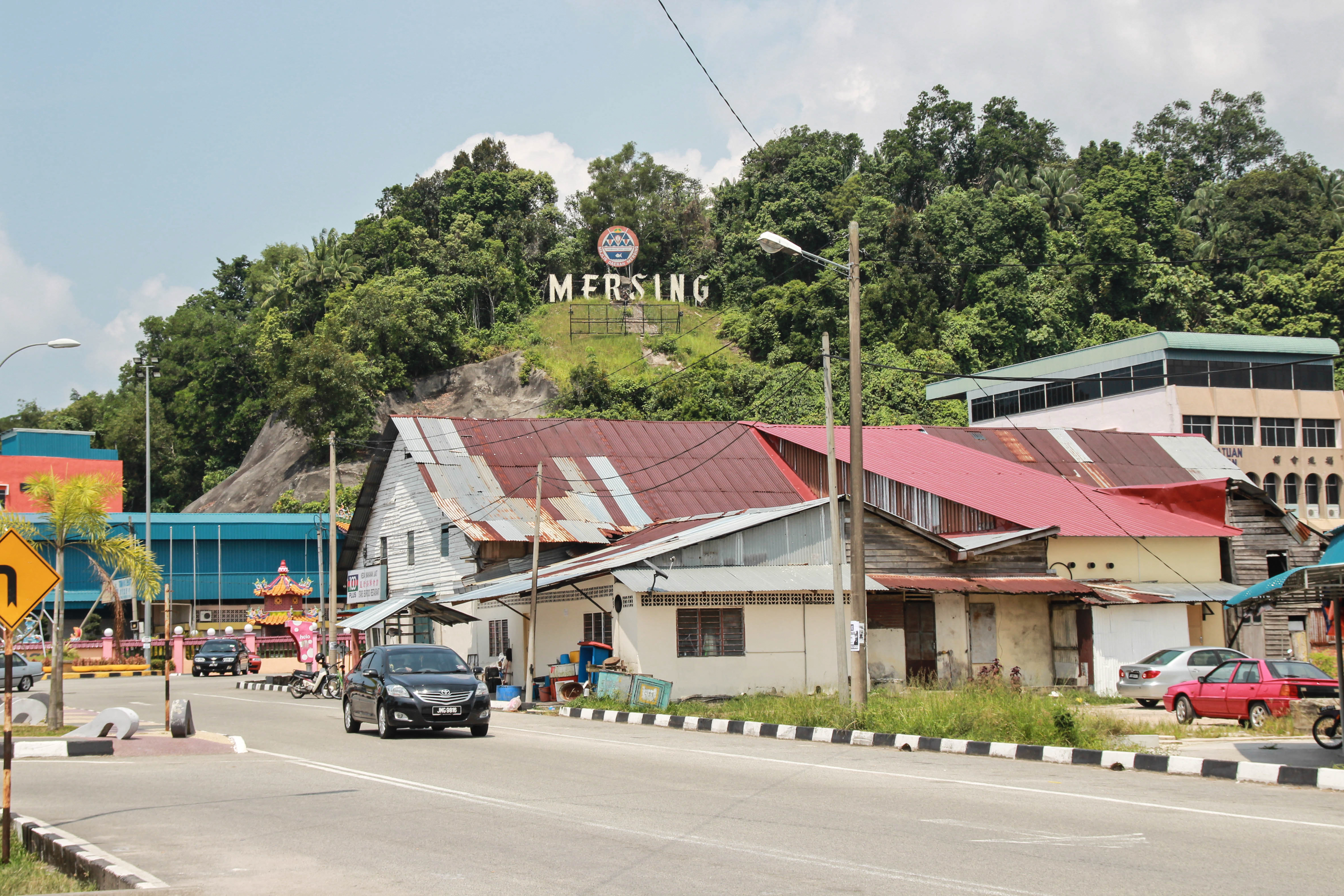 Mersing